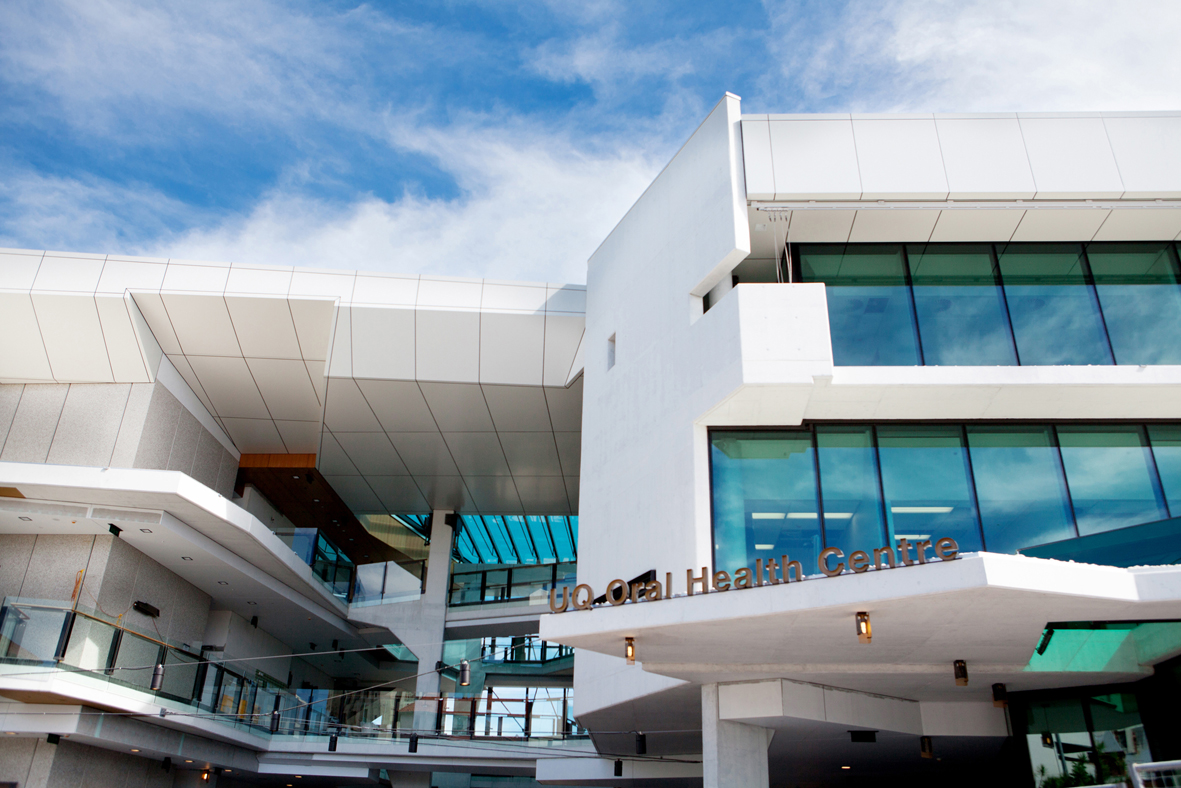 UQ Oral Health Centre